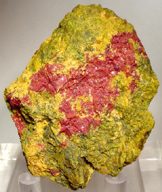 Getchellite, Orpiment Locality: Getchell Mine, Adam Peak, Potosi District, Humboldt County, Nevada, USA (Locality at ) A very rich specimen of lustrous, platy, red getchellite with yellow-orange orpiment in matrix from the Type Locality, the Getchell Mine of Nevada. Ex Ed Ruggiero Collection. Ed, formerly from Dallas, collected from the 1960s until 1987. His collection represents a wonderful time-slice of minerals available during that period. Ed purchased this piece in October, 1975. For the species, this is pretty rich material! 6.1 x 5.0 x 3.7 cm